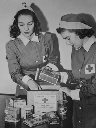 Contents of packages of food for prisoners of war abroad